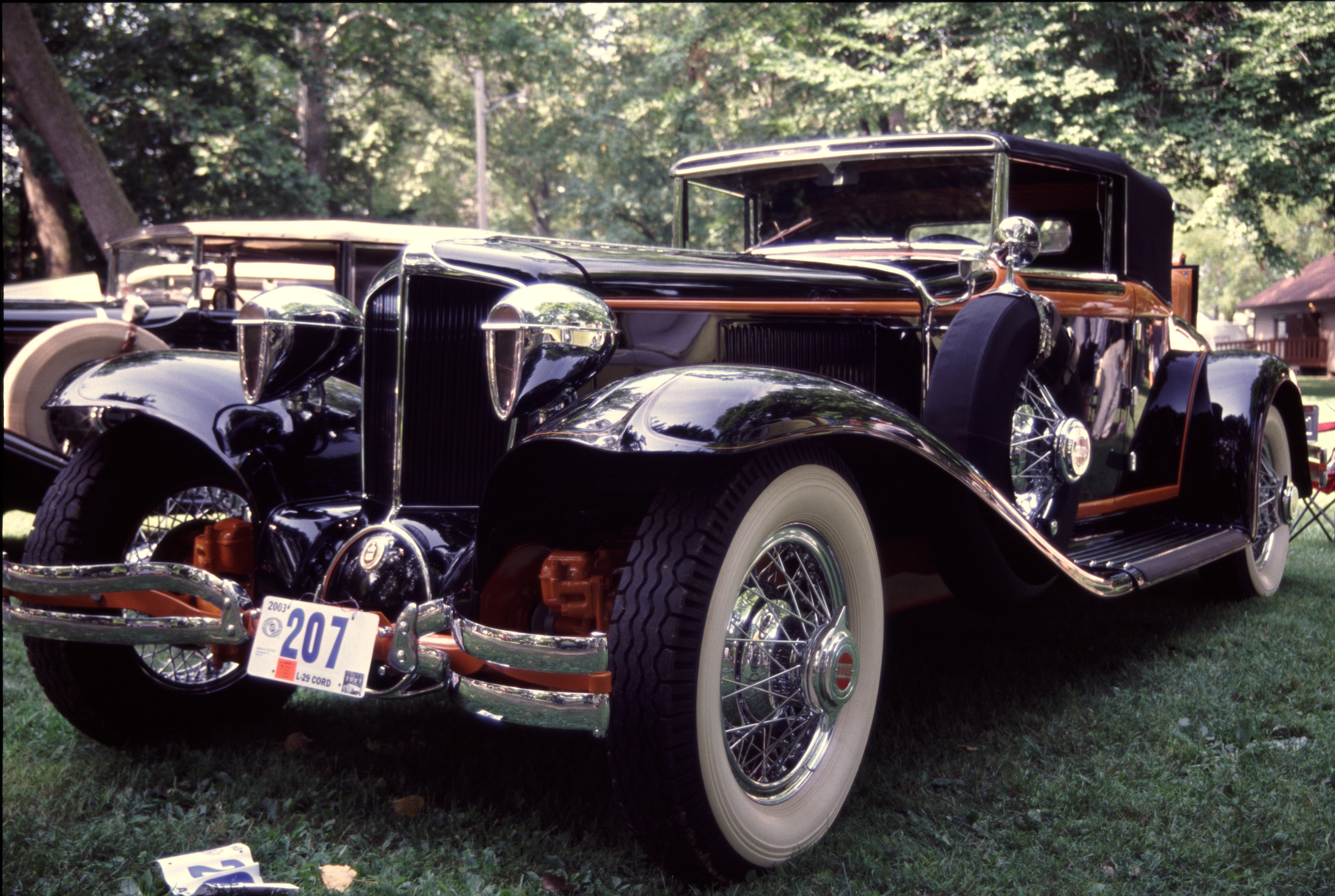 Cord "L 29" in colors suitable for halloween... at the annual ACD meeting in Auburn/IN, 2003